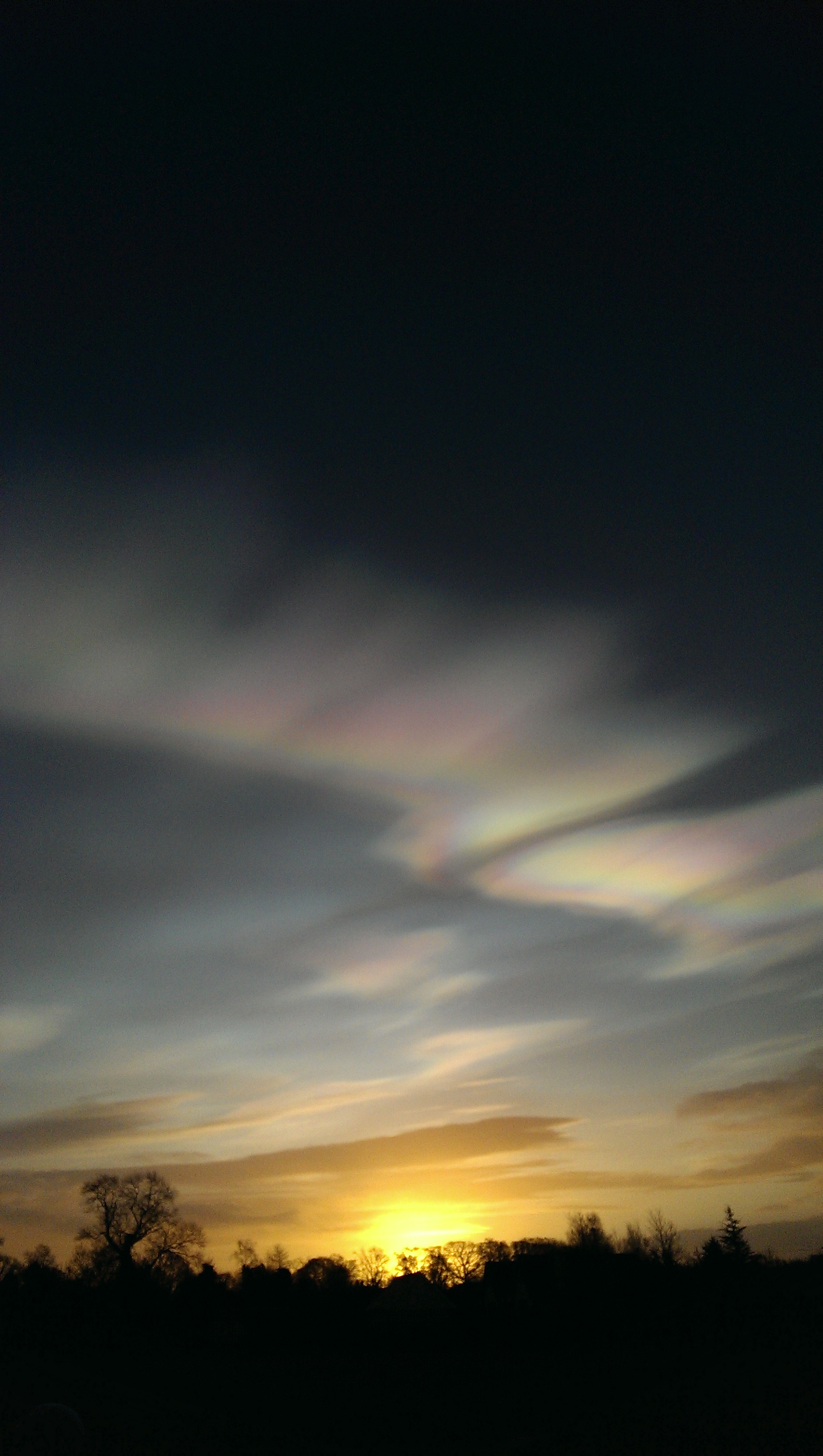 Cloud iridescence over County Kildare, Ireland